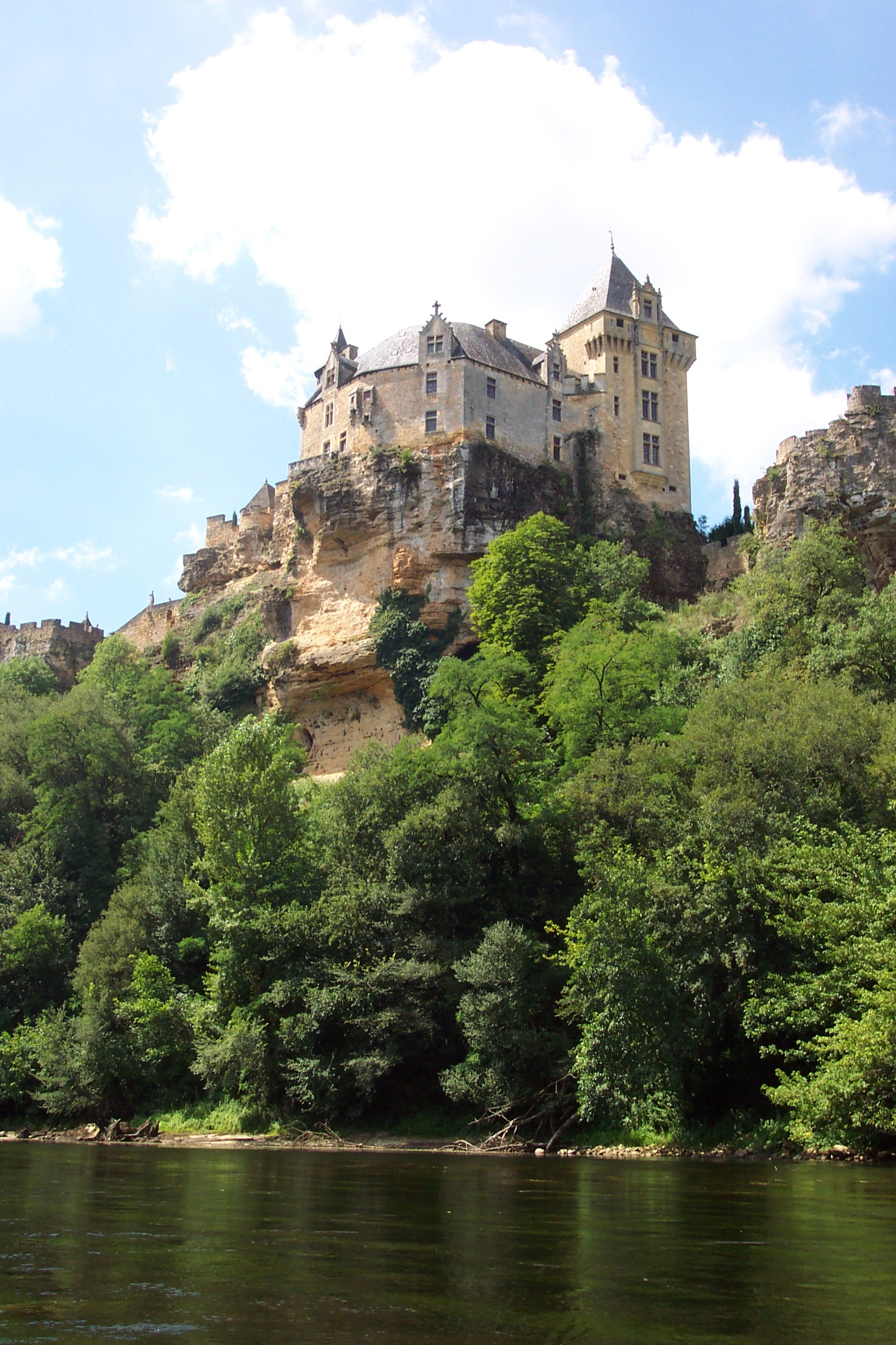 Château de Monfort surplombant la Dordogne Monfort Castle overhanging the Dordogne River